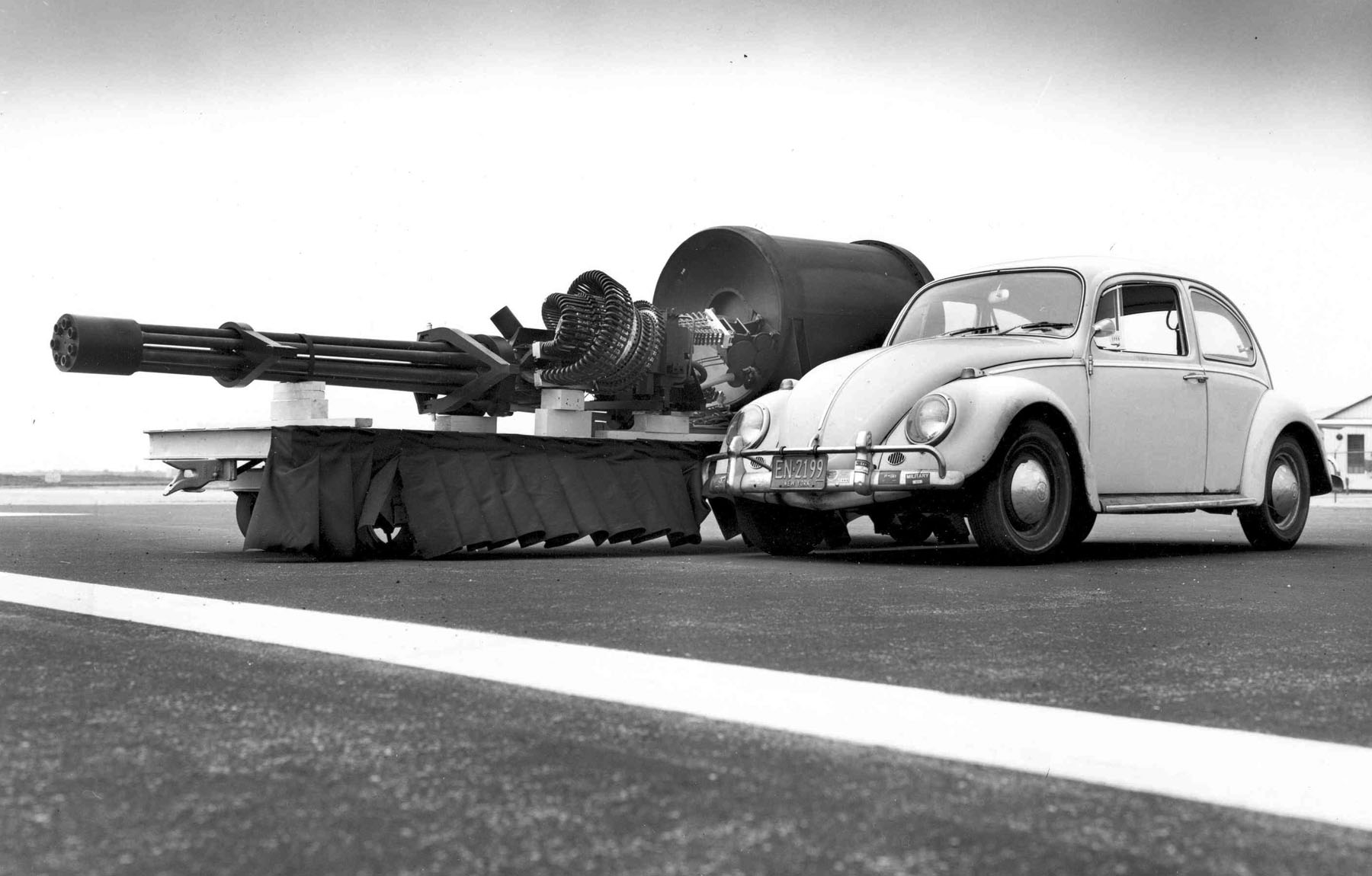 Size comparison of GE GAU-8 Gatling gun, used in A-10 Thunderbolt II, and Volkswagen Type 1. Original caption: "General Electric GAU-8/A displayed next to a Volkswagen Beetle for size comparison".